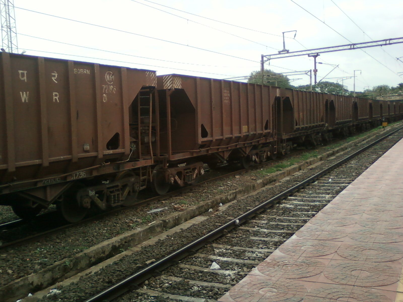 BOBRN class Hopper cars Freight rakes at Samalkot Junction